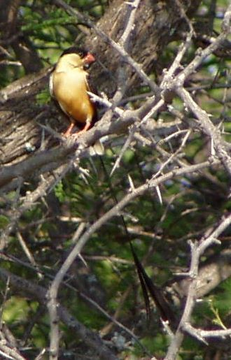 Male Shaft-tailed Whydah Vidua regia in breeding plumage. At Mabalingwe Nature Reserve, Limpopo Province, South Africa